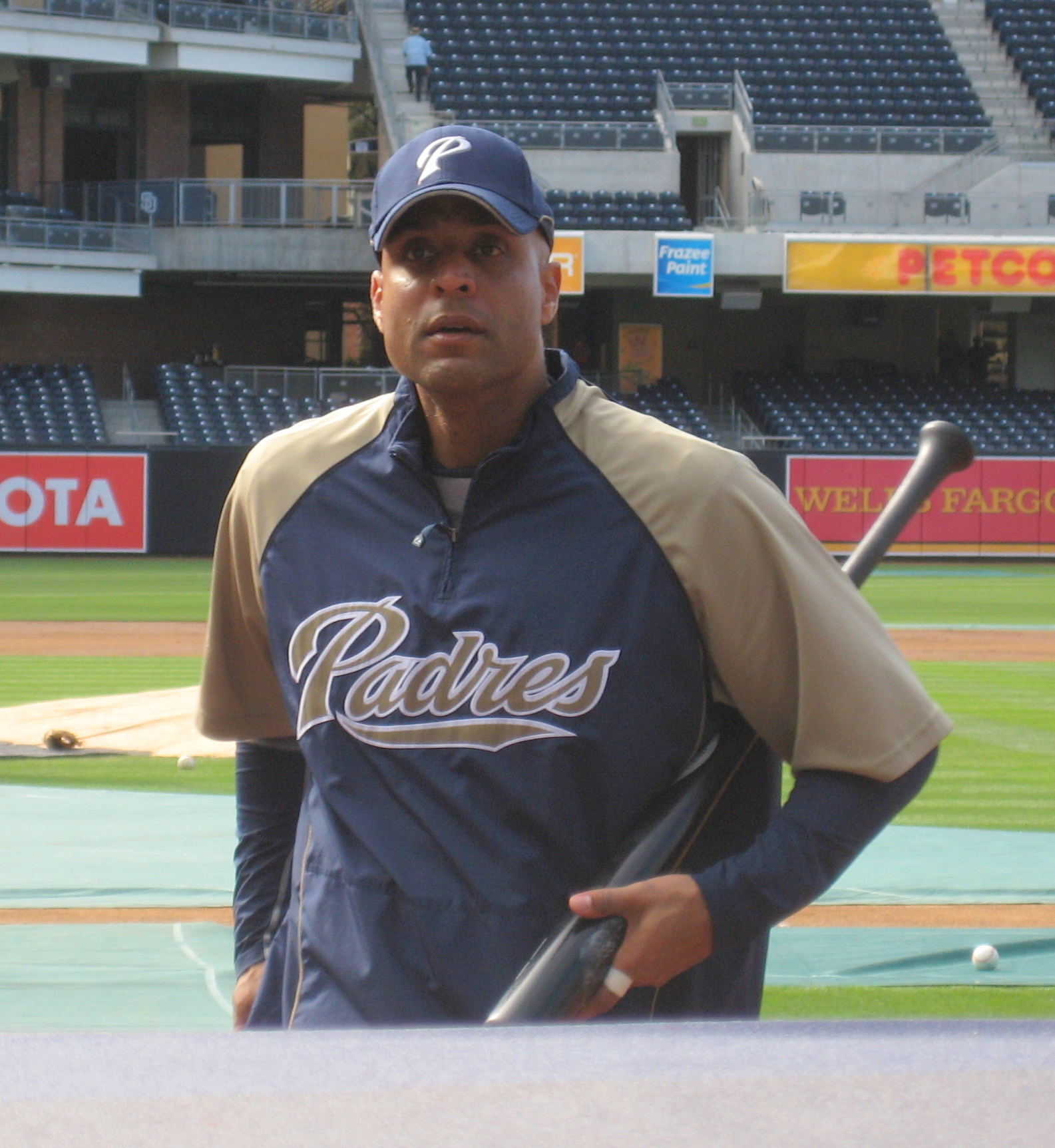 Tony Clark with the San Diego Padres in 2008